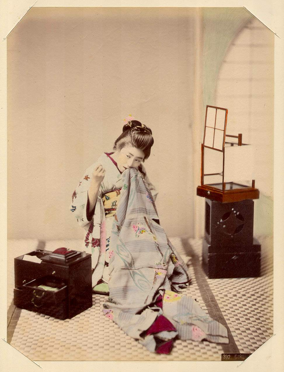 albumen